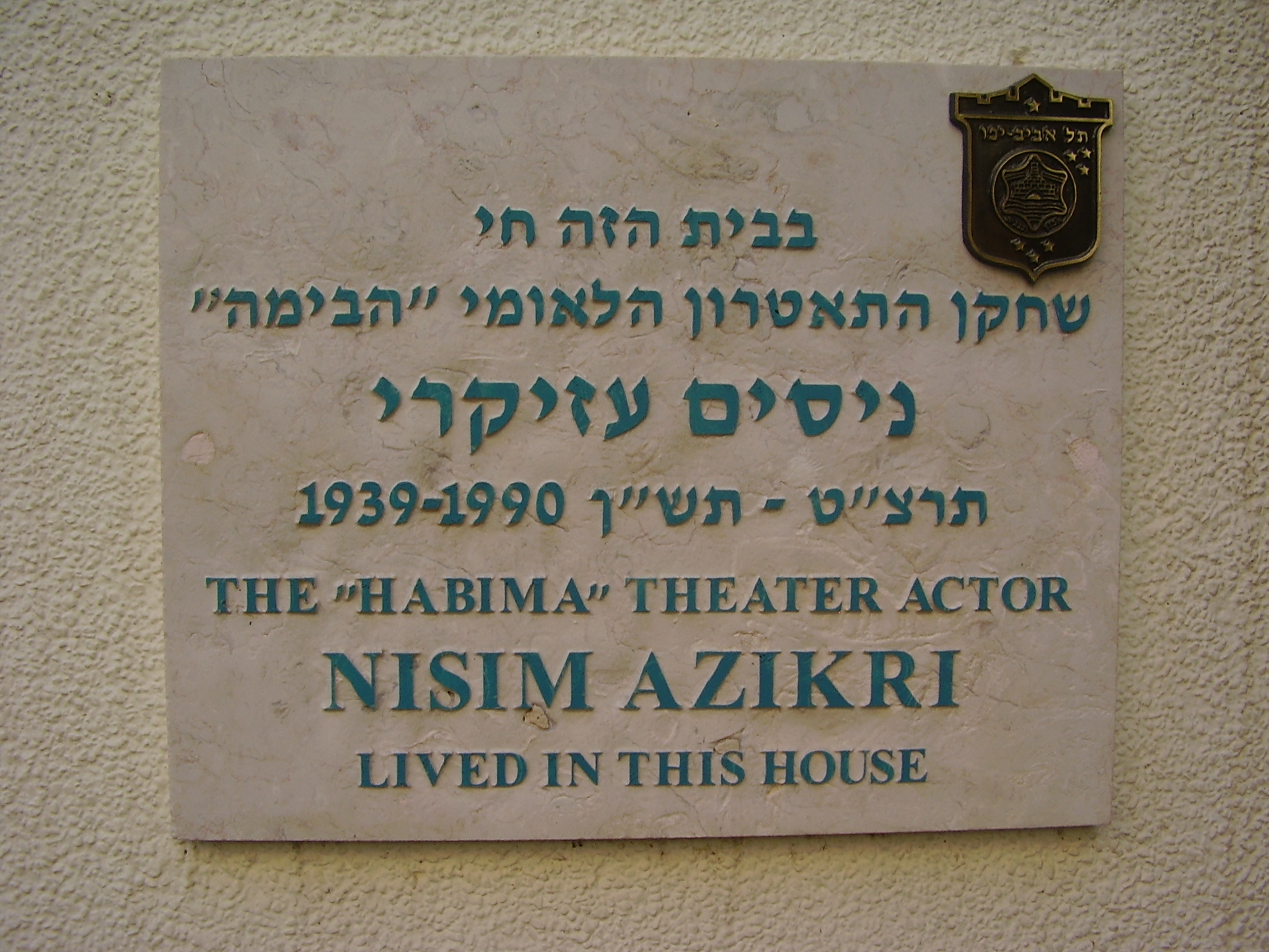 memorial plaque on the actor nisim azikri house in tel aviv לוחית זיכרון על ביתו של השחקן ניסים עזיקרי ברח' ביל"ו 6 בתל אביב